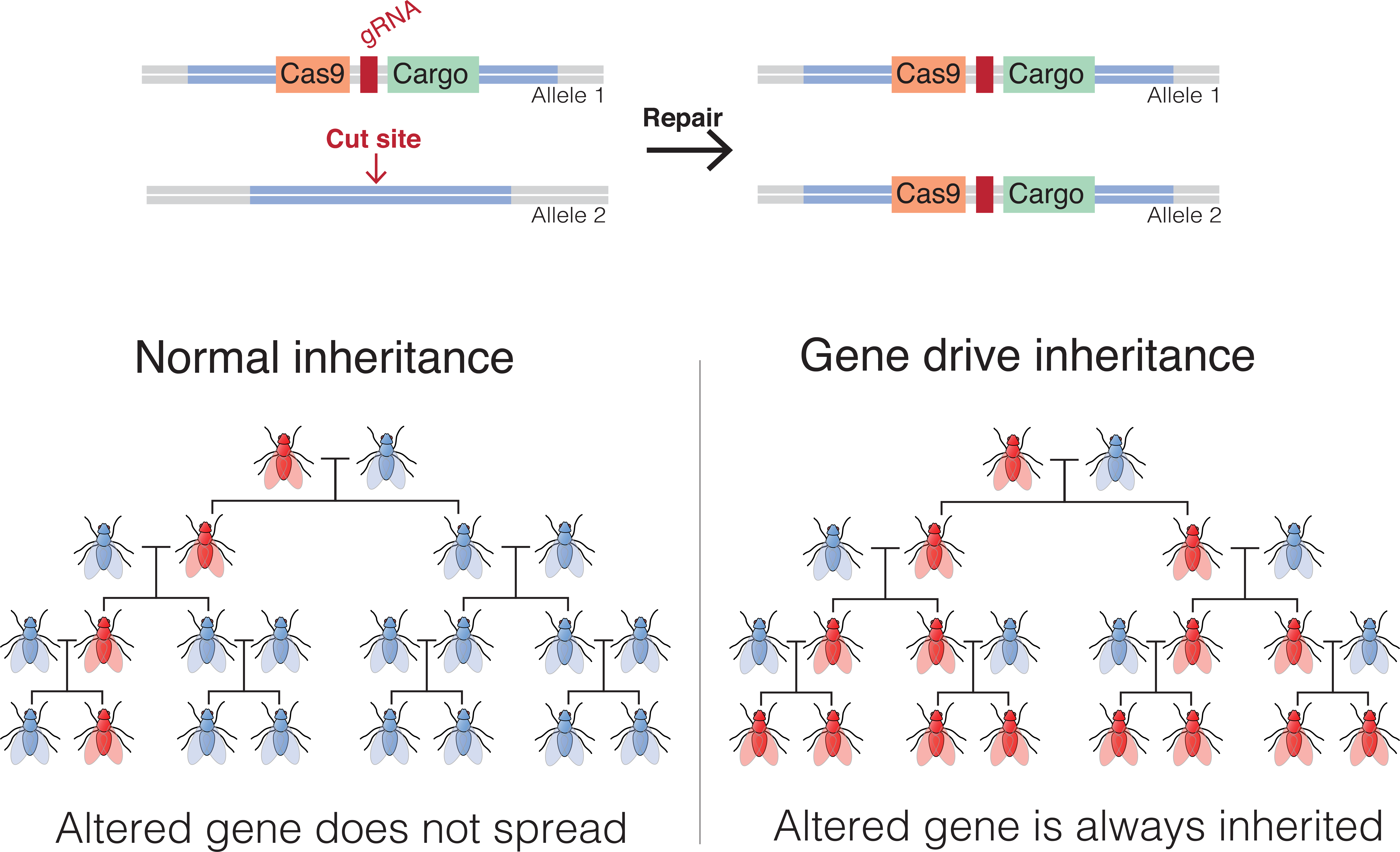 Description of gene-drive in flies